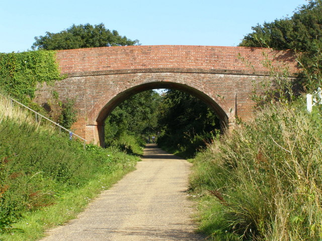 Road bridge over the cycle track